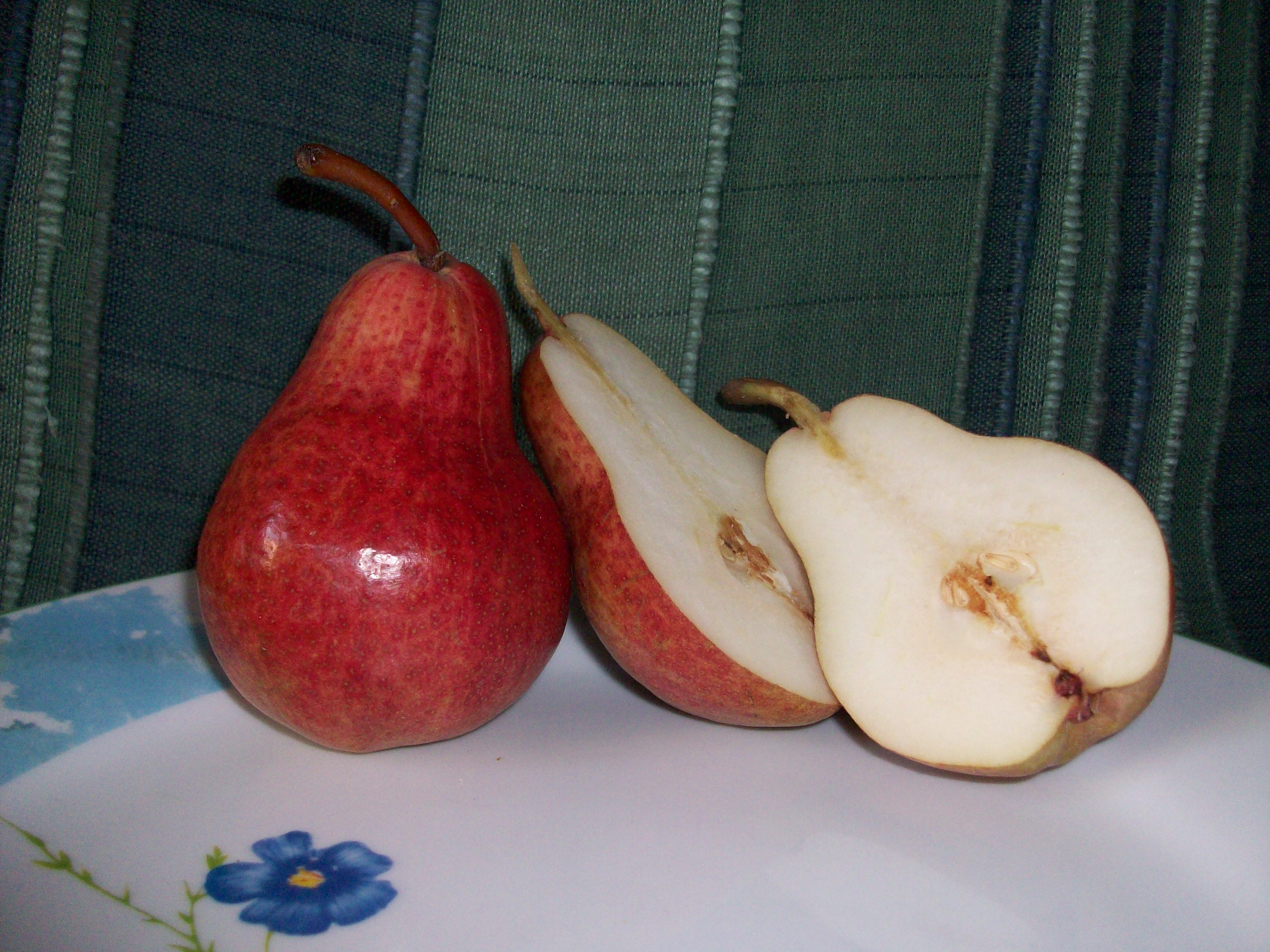 2 Pears Williams (Red Bartlett) one cut vertically